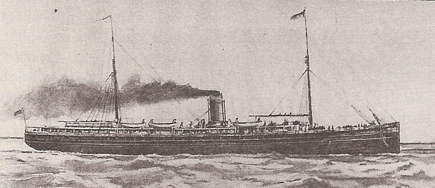 Early promotional artwork of the SS Columbia obtained from a scanned book page, which obtained the artwork from the New Westminster Public Library in British Columbia. The only information given is that this is an early promotional artwork of the ill-fated liner, which sank after a collision with a lumber schooner in the Pacific Ocean offshore Shelter Cove, California. Since the ship was constructed in 1880 and sank in 1907, the artwork is likely dated between the two given dates.